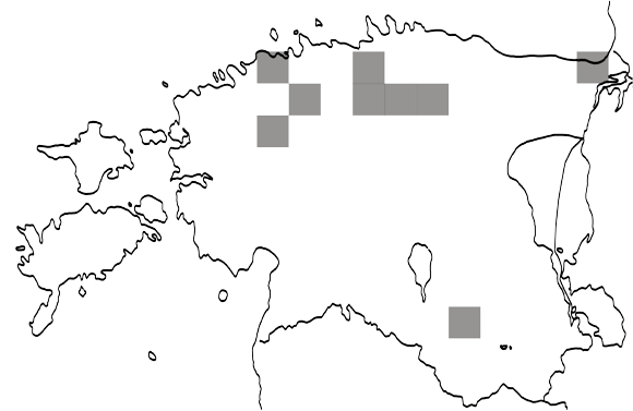 Nephroma resupinatum. Distribution in Estonia 2011.